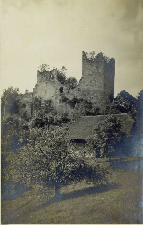 Rifnik castle ruins